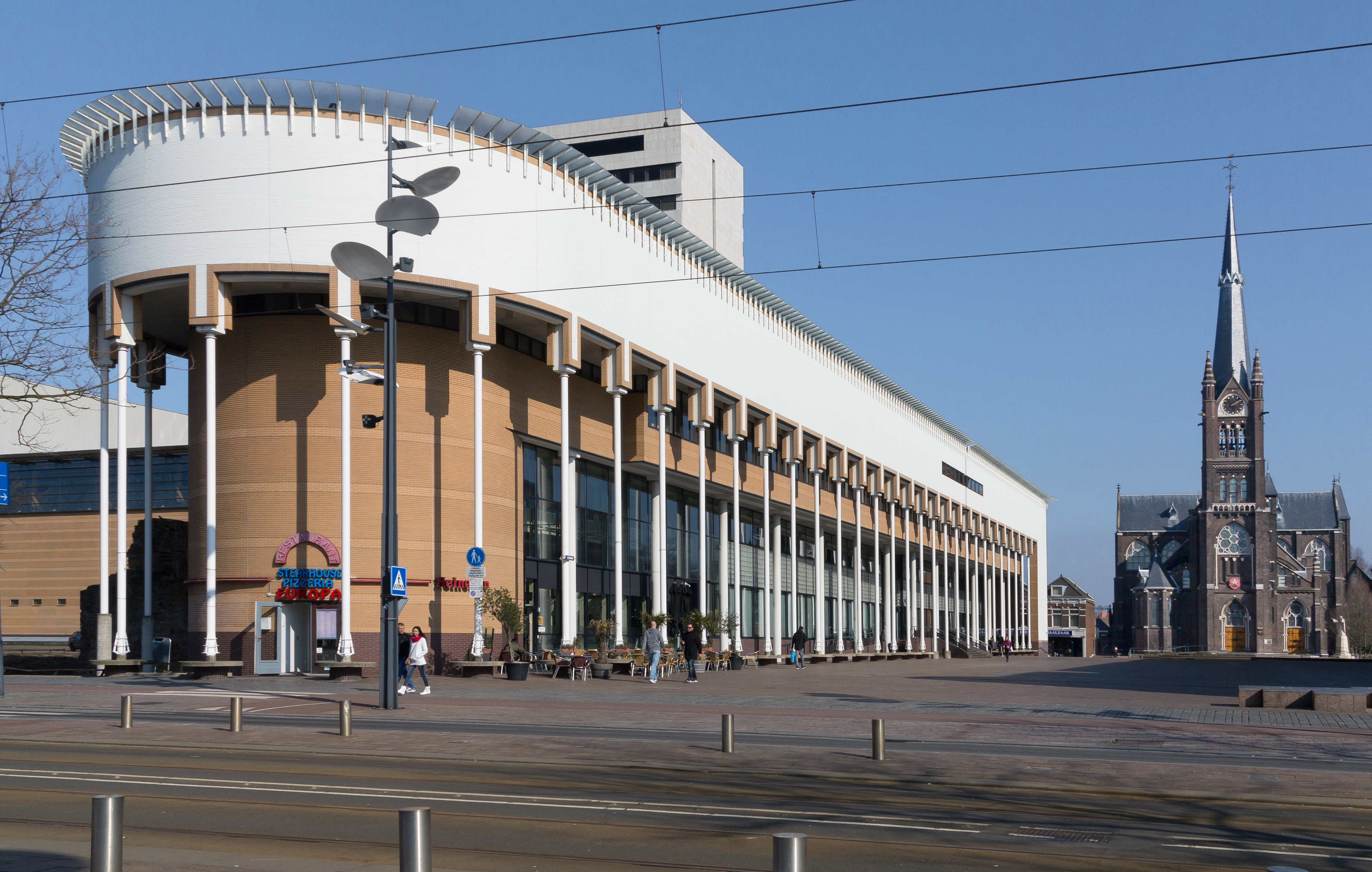 Schiedam, basilica (de Sint Liduinabasiliek) at the Stadserf